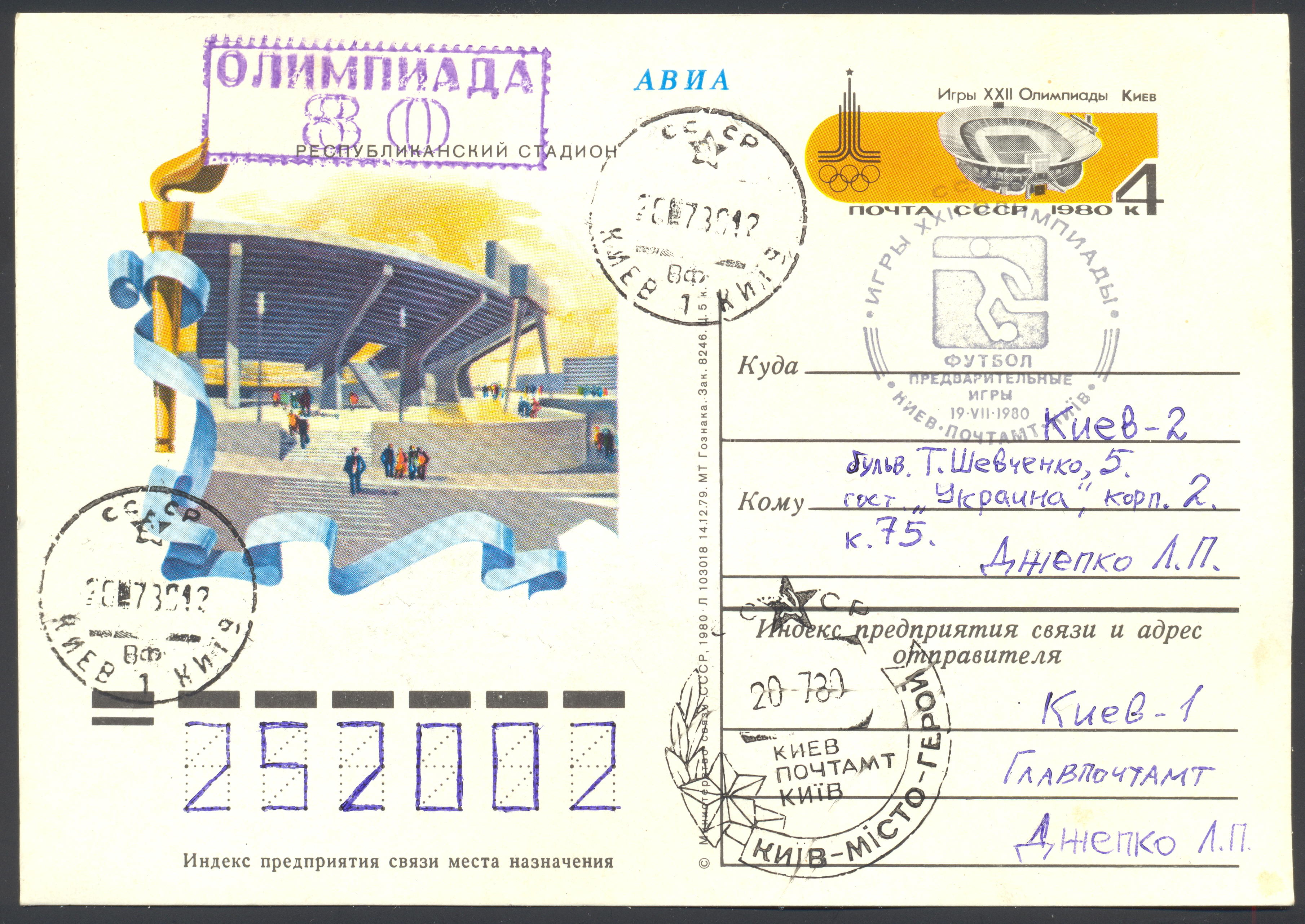 USSR stamped post card with printed original stamp dedicated to 1980 Summer Olympic Games, soccer tournament in Kiev, sent by mail, 1980.